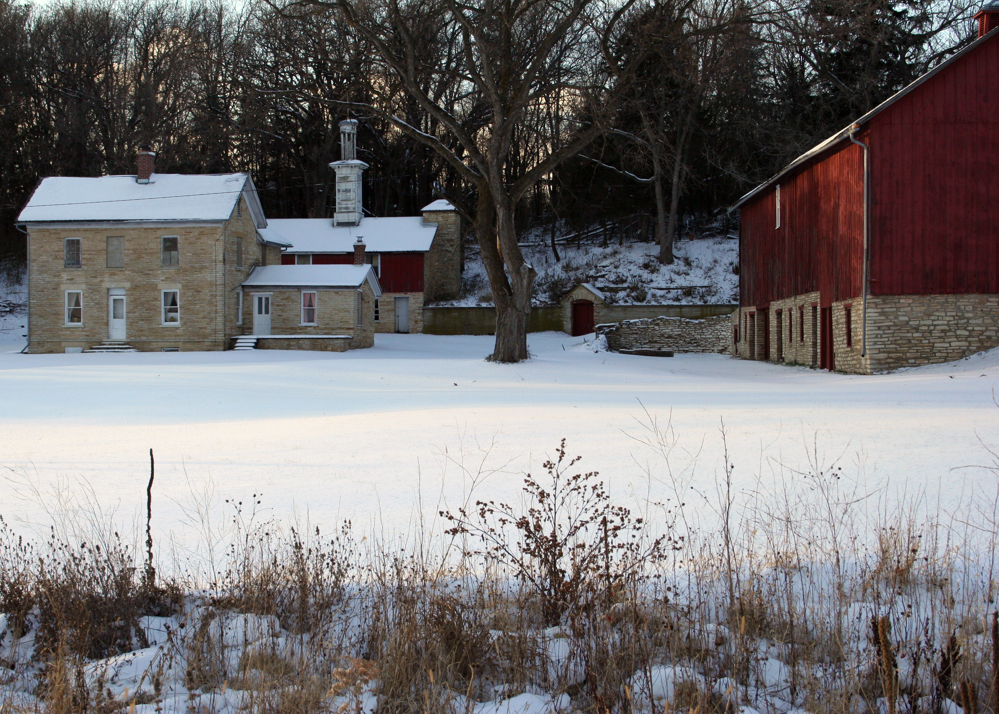 George Stoppel Farmstead in Rochester, Minnesota.